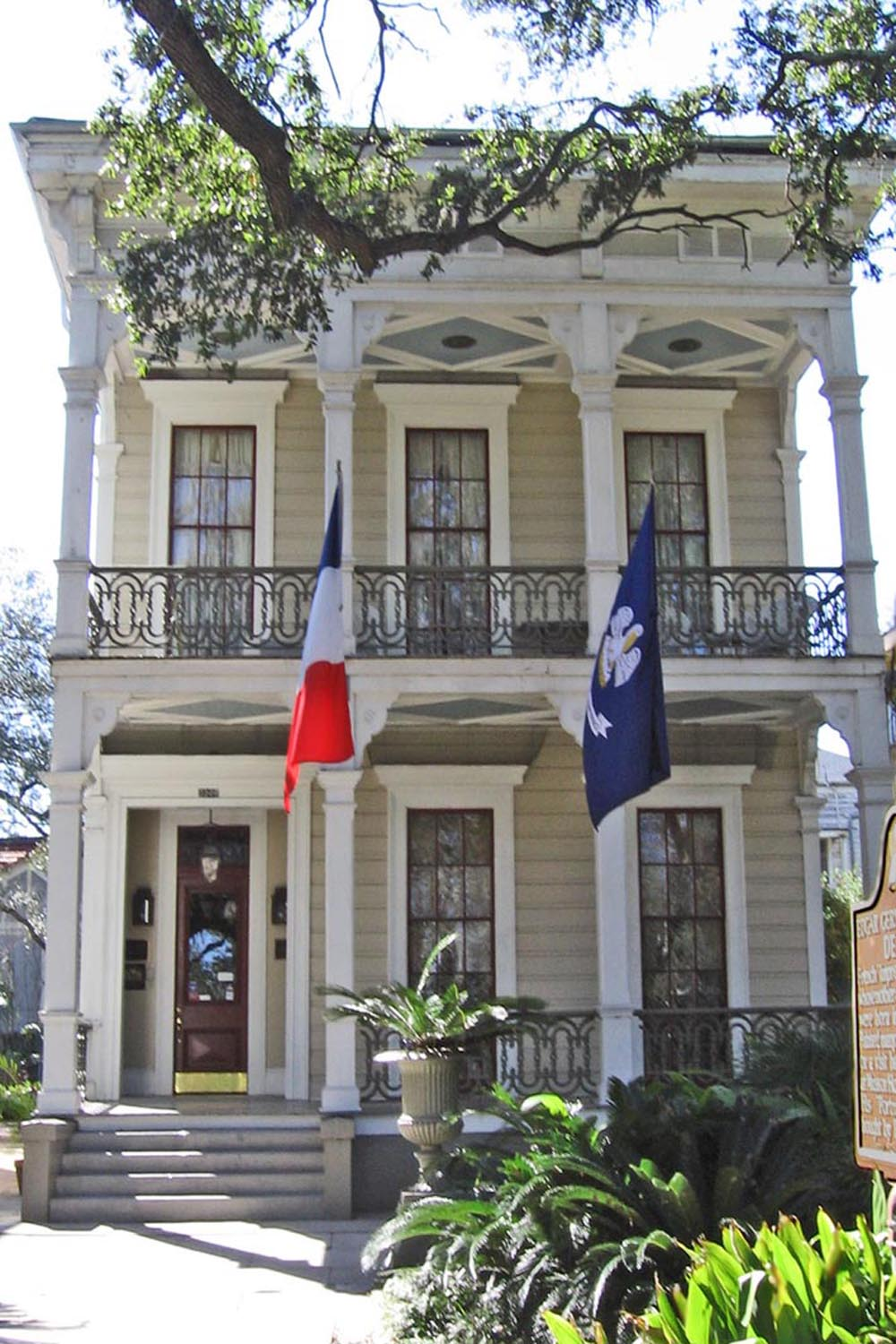 The Edgar Degas House, National Register of Historic Landmarks